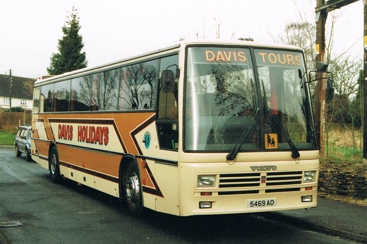 5469 AD Volvo B10M Duple 320 originally F479 WFX and was new to Excelsior of Bournemouth. Seen here at Minchinhampton.